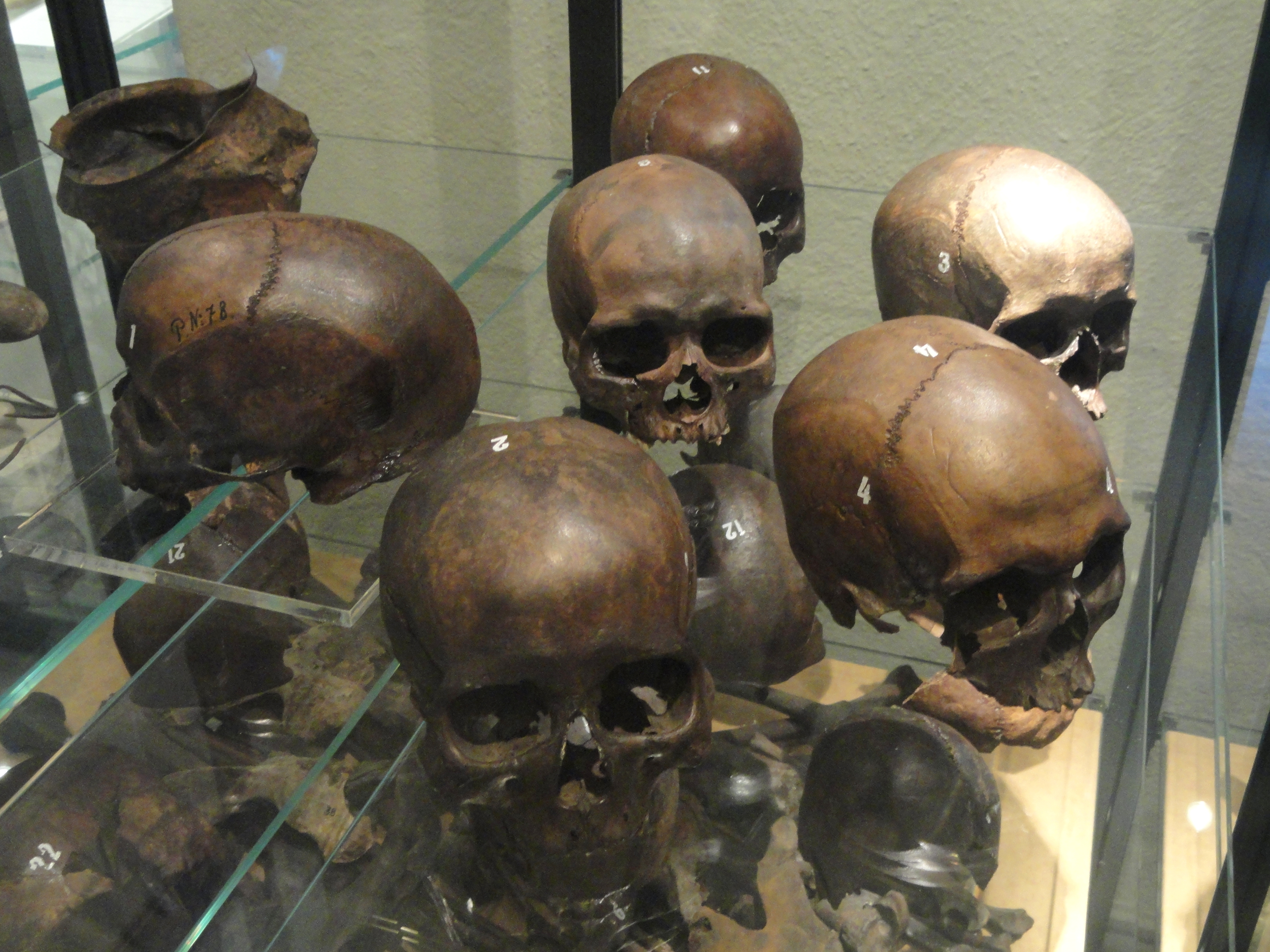 Exhibit in the Archaeological collections, National Museum of Finland, Helsinki, Finland.